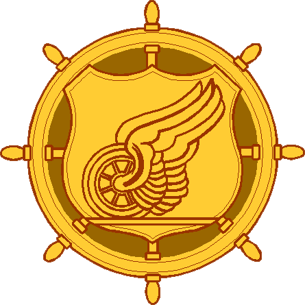 United States Army Transportation Corps collar brass. Made with Photoshop.